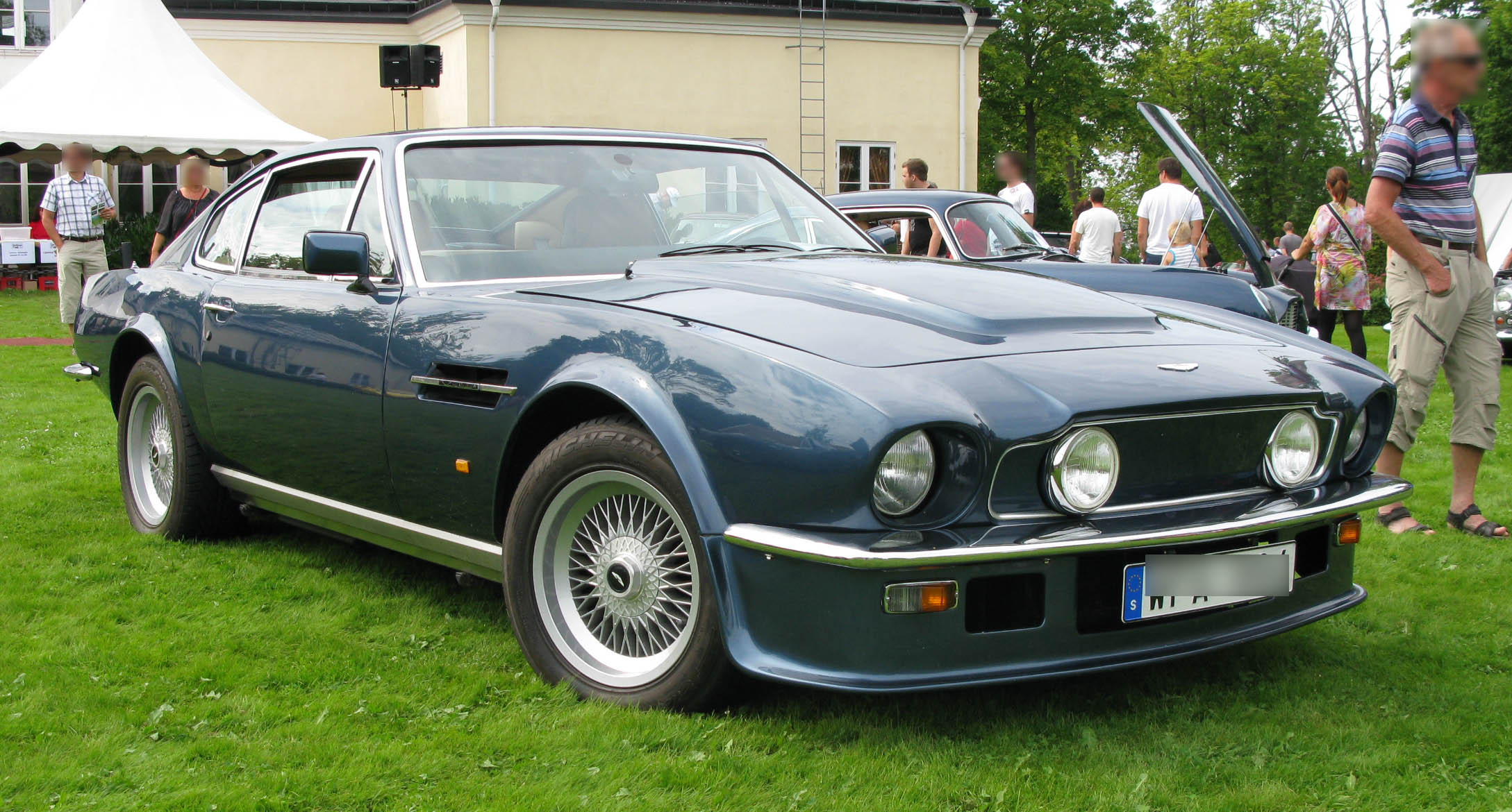 1988 Aston Martin V8 Vantage.Event: Sportbilsdagen i Västervik 2012.